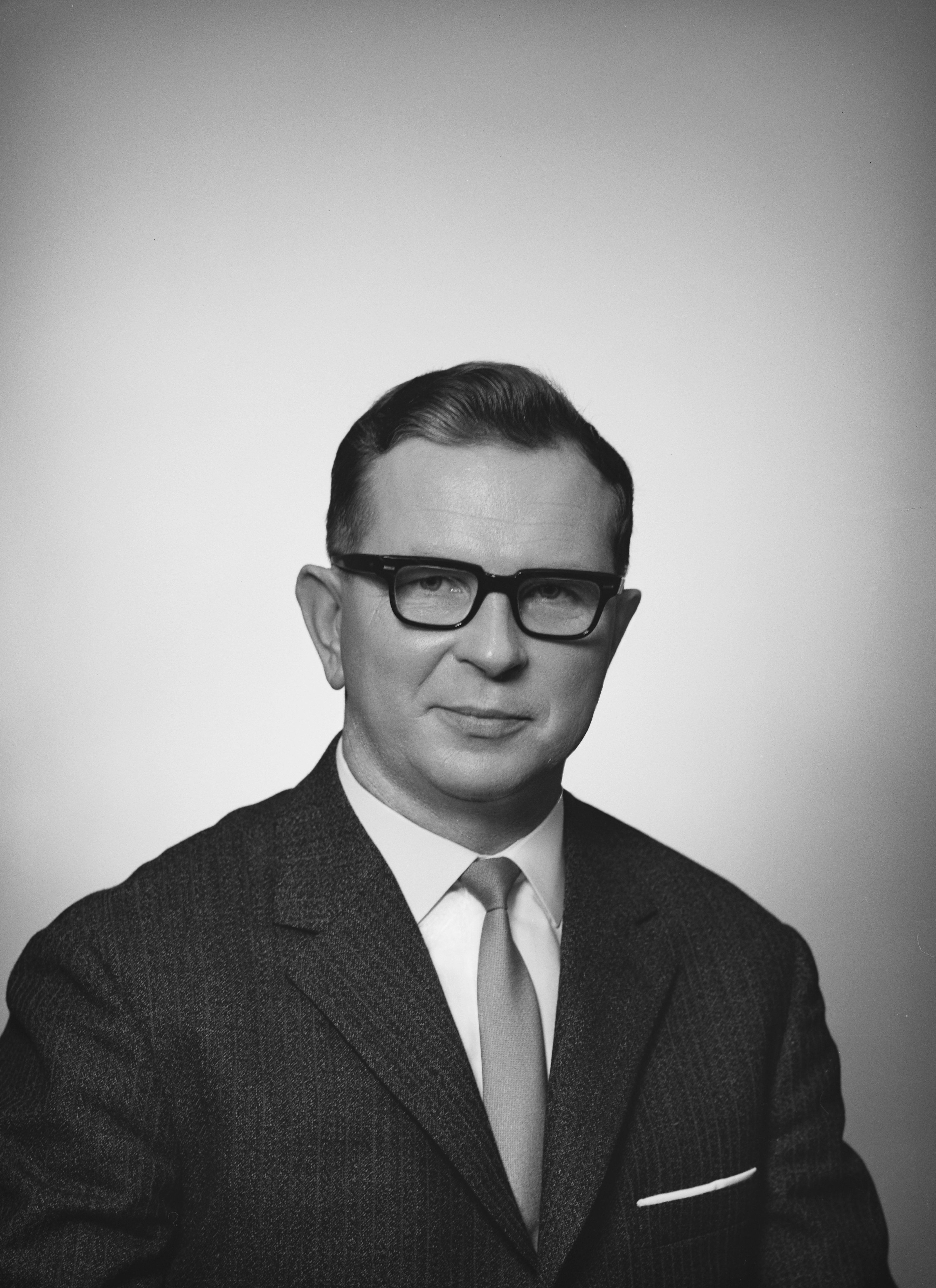 Photograph of the Finnish writer Urho Ketvel (1923–).